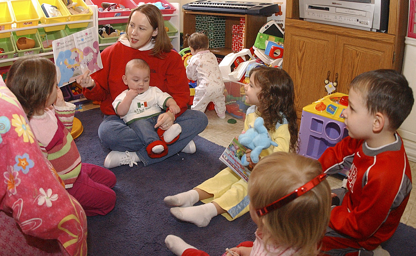 Gina Narvaez, center, reads a Blues Clues book to her daycare children Frida before breakfast. Narvaez, a home child care provider, is one of 15 providers that the child development center has, which is currently at a critical shortage. The maximum capacity of home child care providers is currently 30.